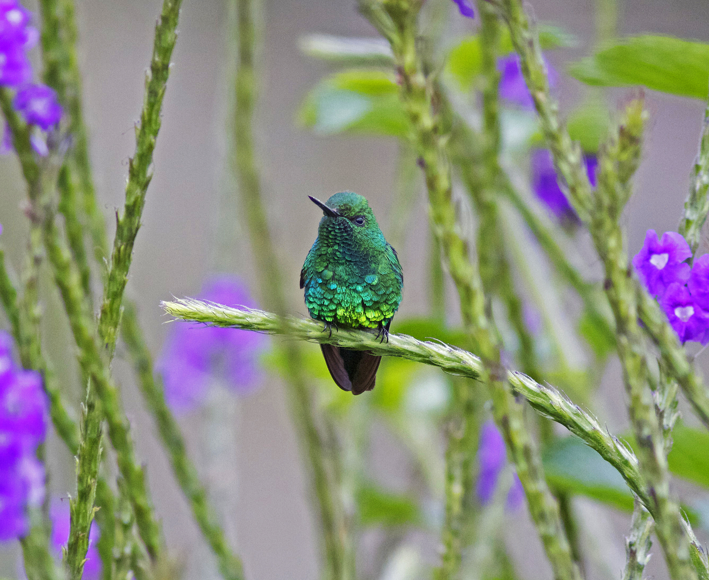 Garden Emerald photo taken at Rancho Naturalista, Costa Rica.